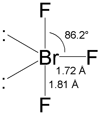 Created the picture my self with drawing program and converted it to png!